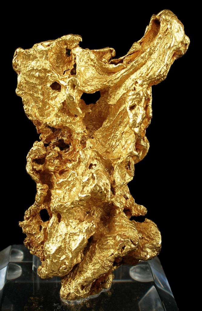 Gold Locality: Ballarat, Victoria, Australia (Locality at ) Size: 7.4 x 4.4 x 2.3 cm. This hefty gold nugget, weighing in at just over 150 grams (approximately 5 troy ounces), is a crystallized nugget of a sort rarely seen in good, aesthetic specimens. It has, as you can see, a "tortured", elongated crystal rope curving up from the main nugget mass. Such pieces are seldom found, and this would be considered a large "rope gold" crystal by any standard. The piece has a beautiful slightly copper or brassy patina, a little darker than normal Aussie nuggets from the more common Victoria locales. It was long in the Ed David Collection until the mid-1990s, after which it was in the collection of collector/dealer Lawrence Conklin.